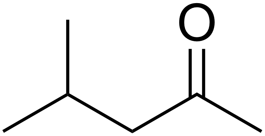 chemical structure of methyl isobutyl ketone (4-methyl-2-pentanone)